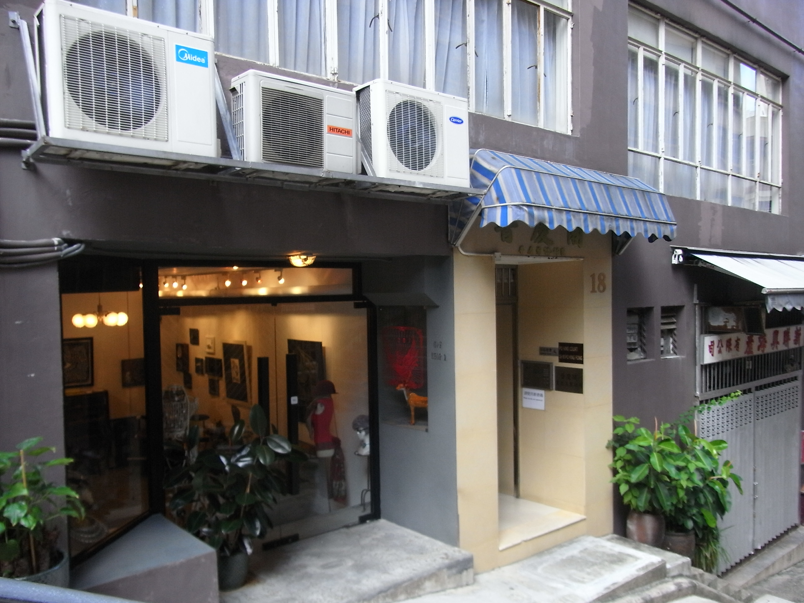 18 Po Hing Fong, Sheung Wan, Hong Kong